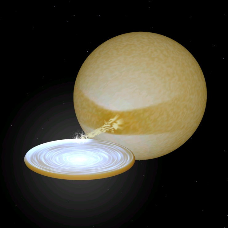 Artist's impression of a low-mass X-ray binary (LMXB): an evolved low-mass yellow sub-giant star transfers mass to a neutron star. Because the accretor is a compact object, an accretion disc forms, which is the source of the X-rays. This image was produced using Rob Hynes' programme BinSim (version 0.8.1).